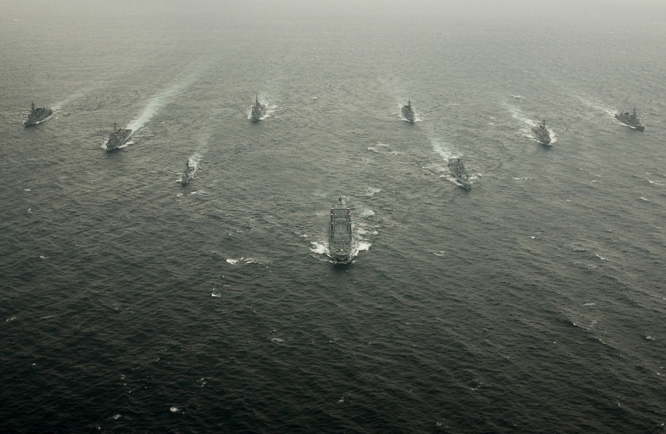 From left, Japanese destroyer JS Ikazuchi (DD 107), Arleigh Burke-class guided-missile destroyer USS Mustin (DDG 89), Indian navy patrol craft INS Kuthar (P 46), Japanese destroyer JS Takanami (DD 110), Indian navy auxiliary ship INS Jyoti (A 58), Japane se destroyer JS Kirishima (DD 174), Indian navy destroyer INS Mysore (D 60), Arleigh Burke-class guided-missile destroyer USS John S. McCain (DDG 56) and Japanese destroyer JS Murasame (DD 101) operate in formation April 16, 2007, while under way in Toky o Wan during a trilateral exercise. (U.S. Navy photo by Mass Communication Specialist 1st Class John L. Beeman) (Released).